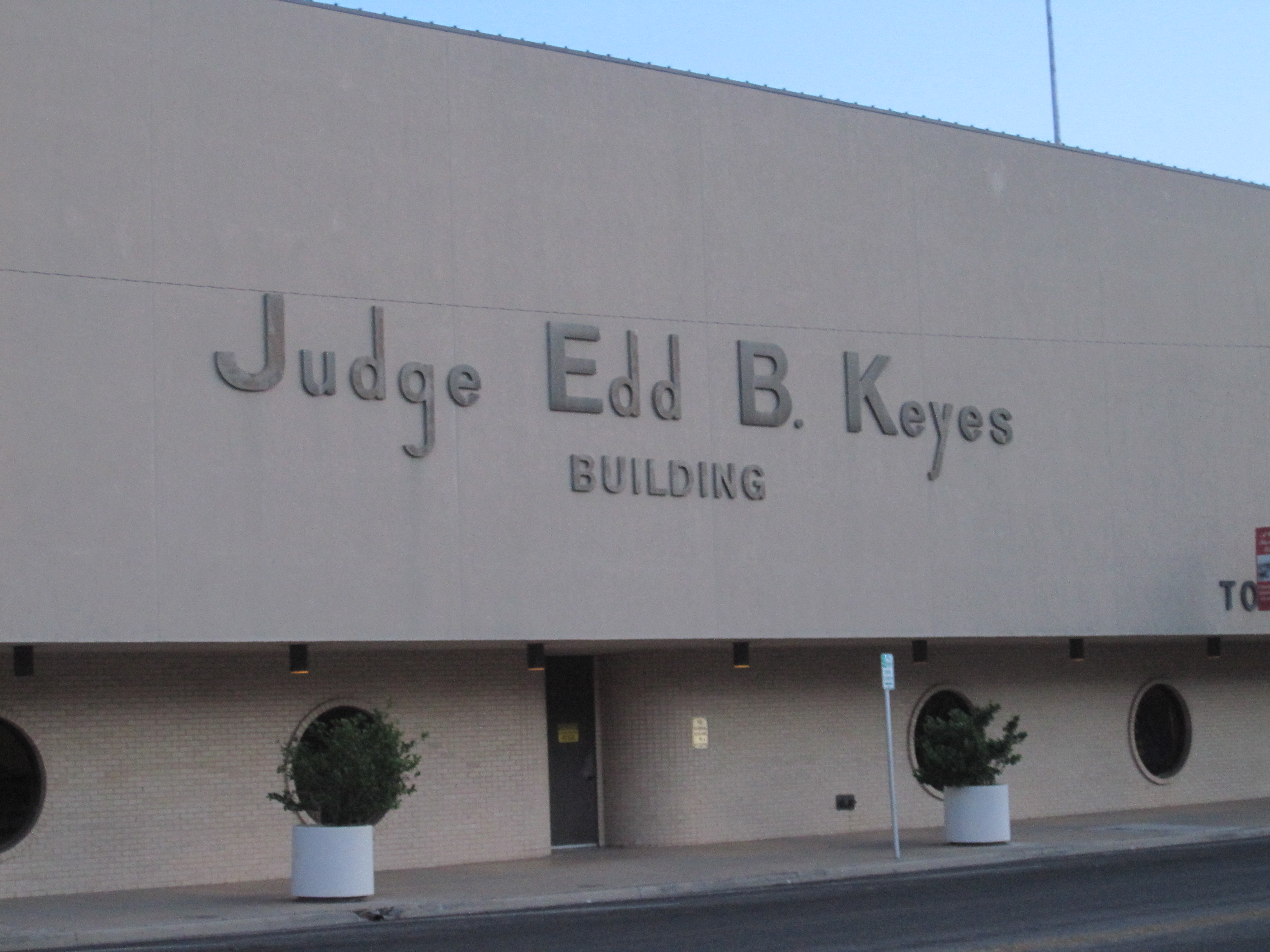 I took photo in San Angelo, TX, with Canon camera.